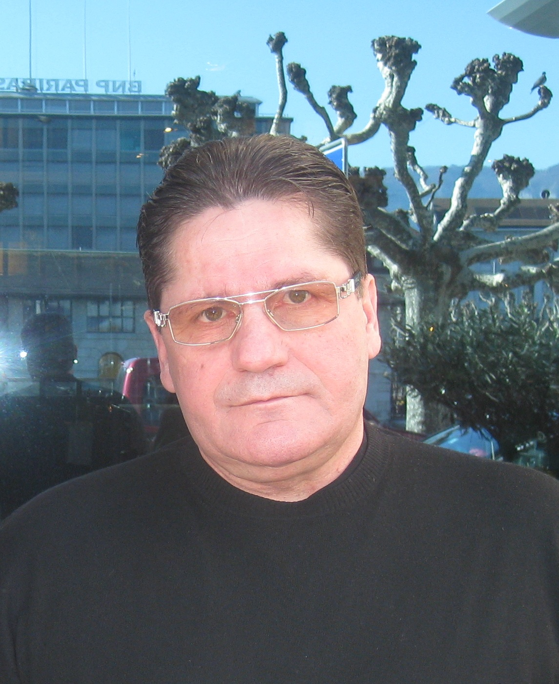 Sergueï Makarov